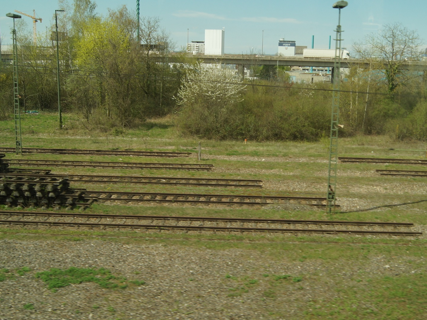 Rangierbahnhof Basel Badischer Bahnhof, actual situation of the marshalling yard on the Swiss side